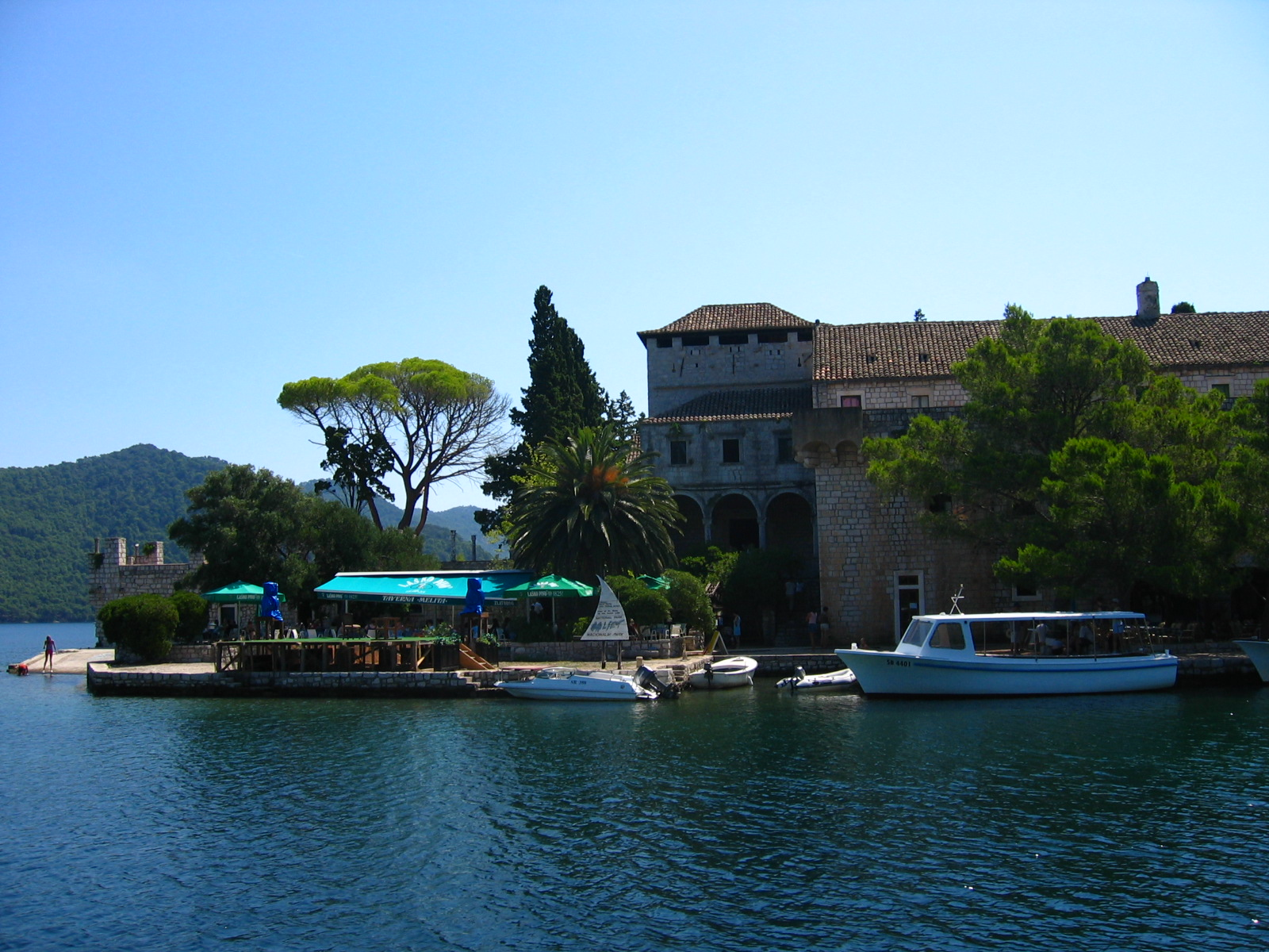 Sveta Marija Monastery, Island of Mljet, Croatia